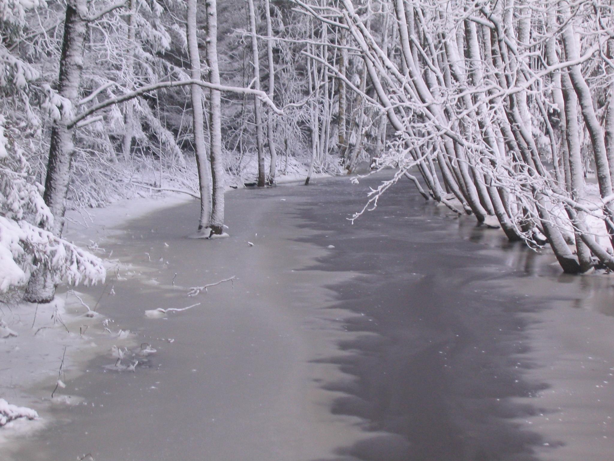 A very smal river in Finstrom, Aland, Finland.